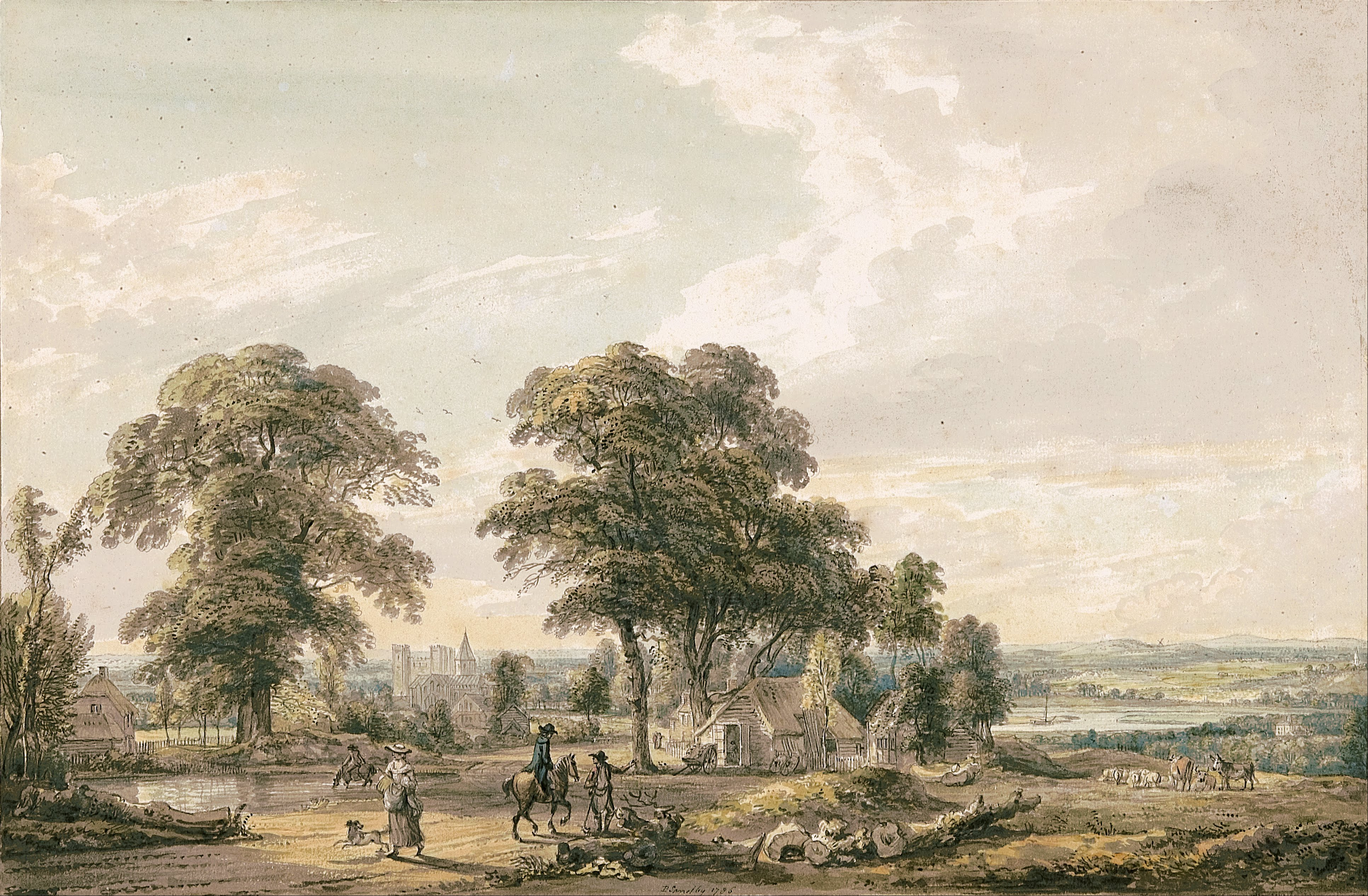 watercolormedium QS:P186,Q22915256